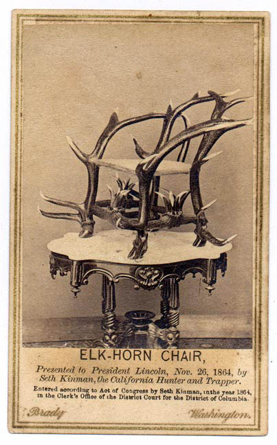 1864 photo by Matthew Brady of an elkhorn chair presented by Seth Kinman to President Lincoln